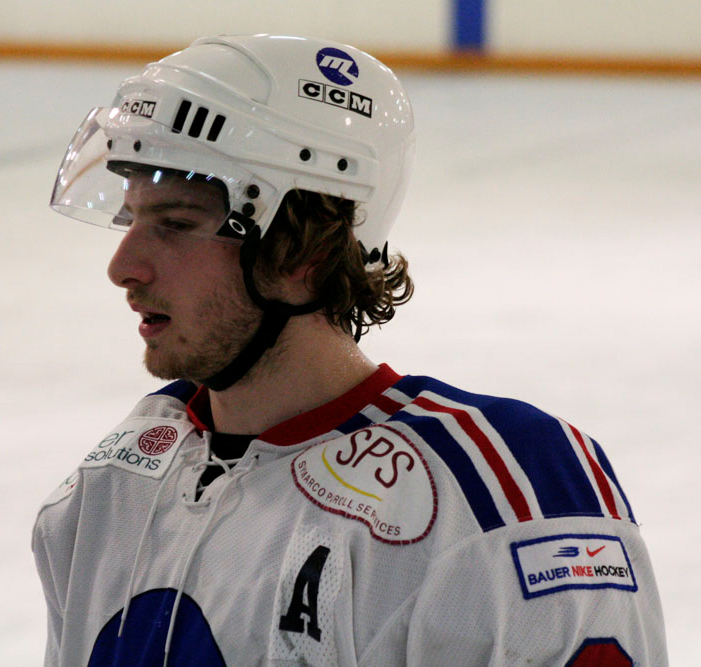 Lliam Webster playing for the Melbourne Ice during the 2007 AIHL season